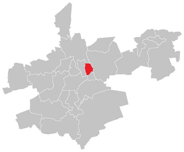 Location map of Olomouc district Pavlovičky